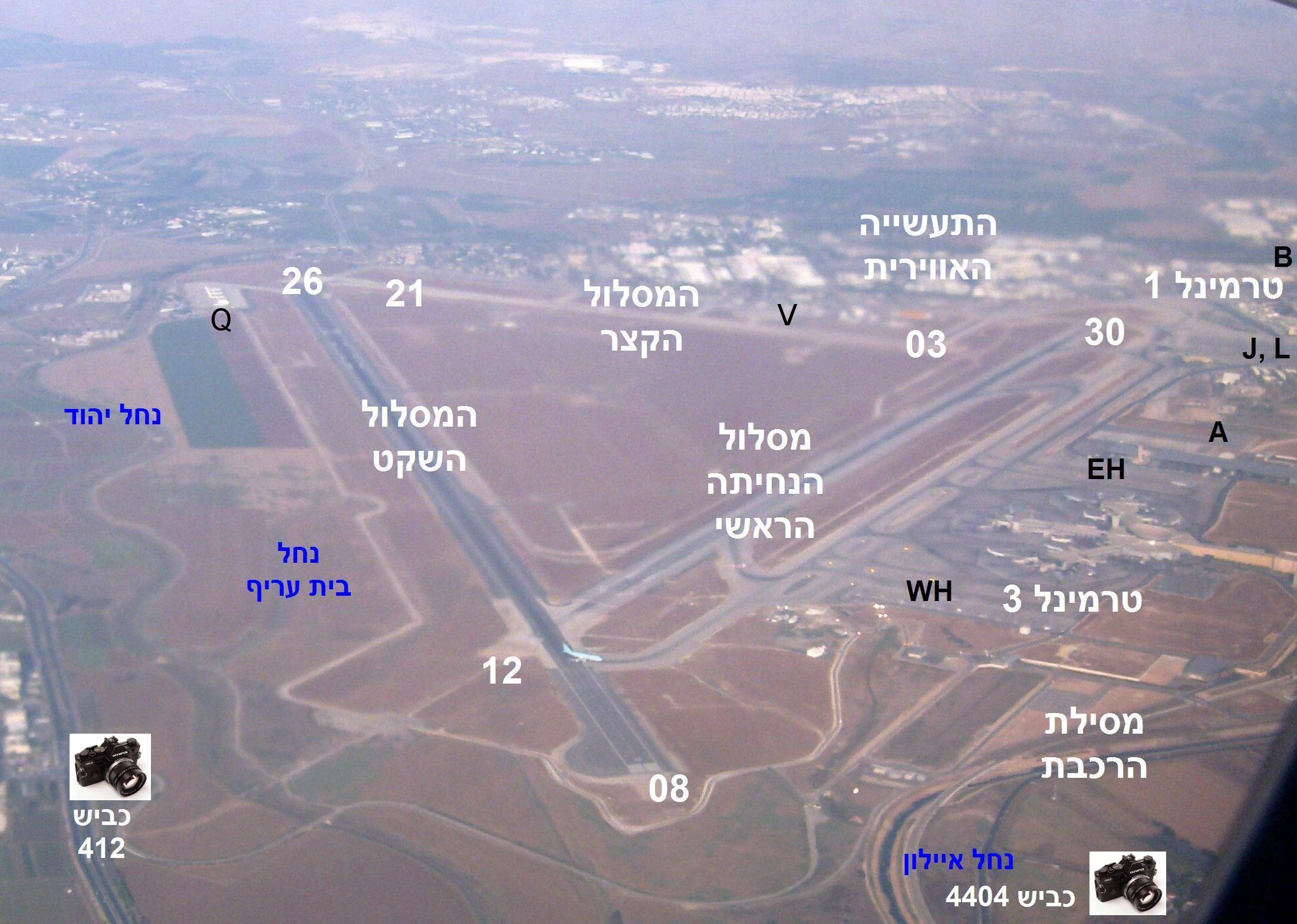 Ben Gurion Airport's Runways, as seen from an incoming flight. There is an aircraft seen taxiing on the runway. This incoming Delta flight from Atlanta, GA circled around the airport and landed on the NW runway, approaching from the east